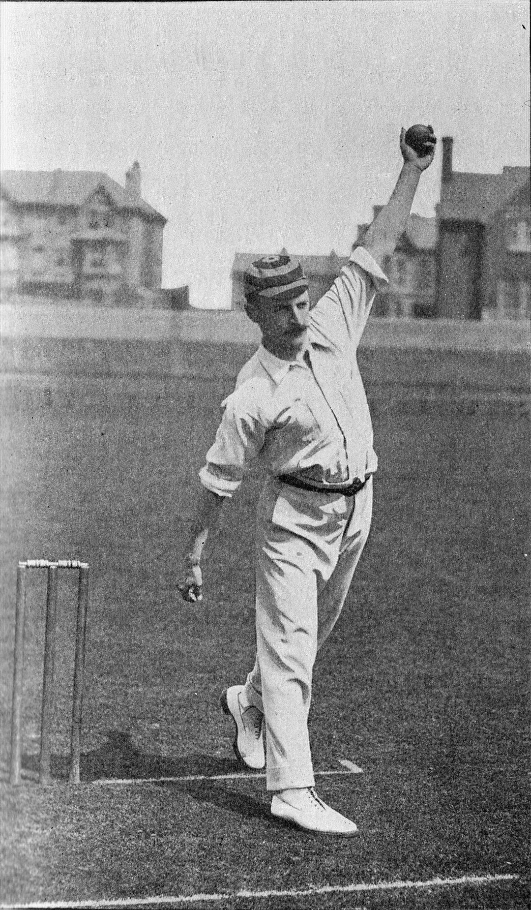 "J. J. Ferris in the act of delivery."